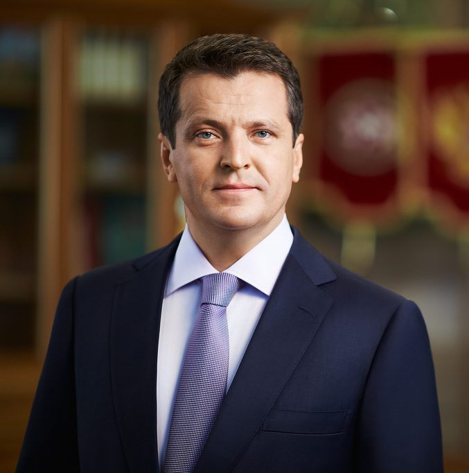 Ilsur Metshin